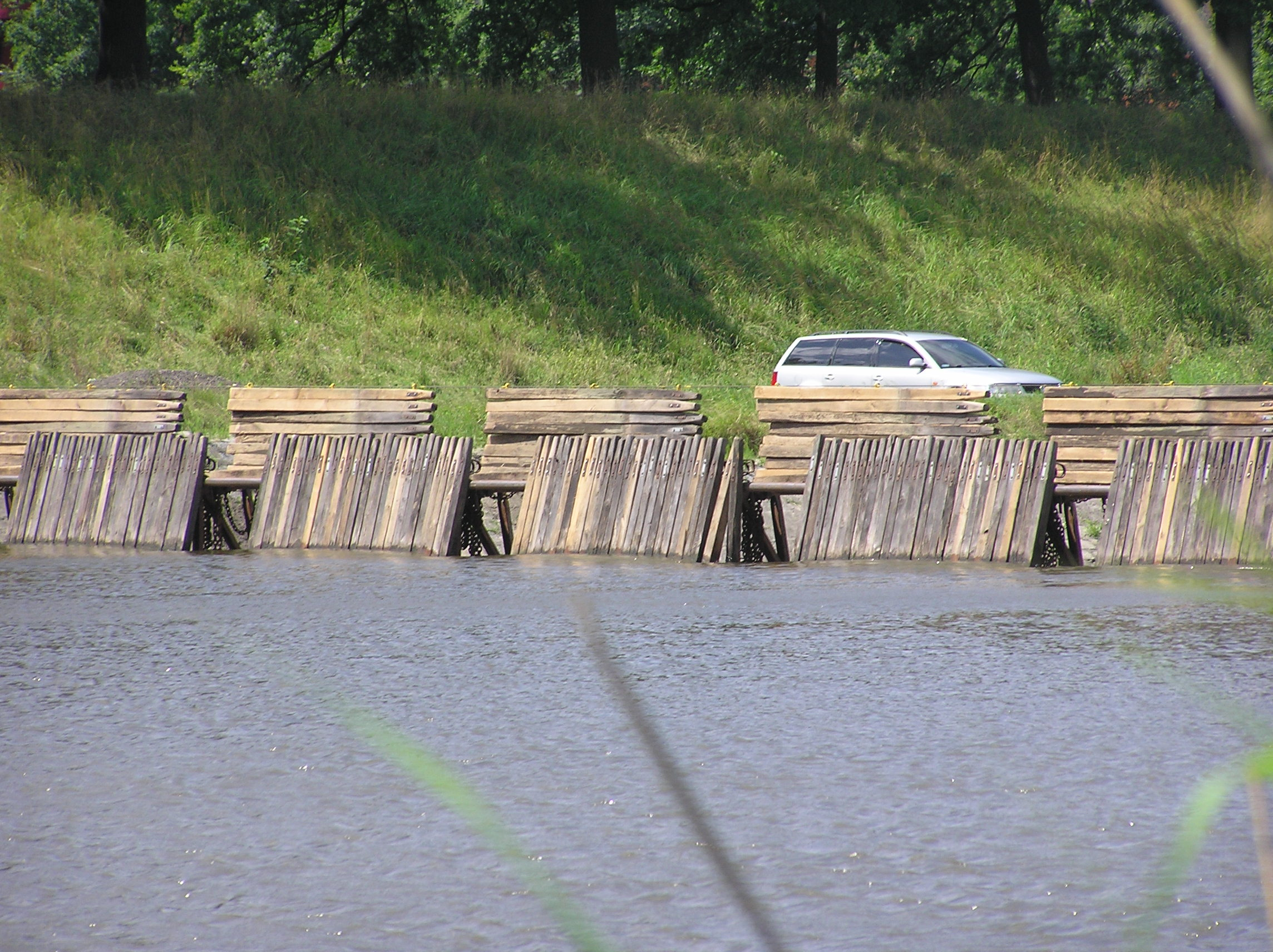 Wrocław, Psie Pole Weir